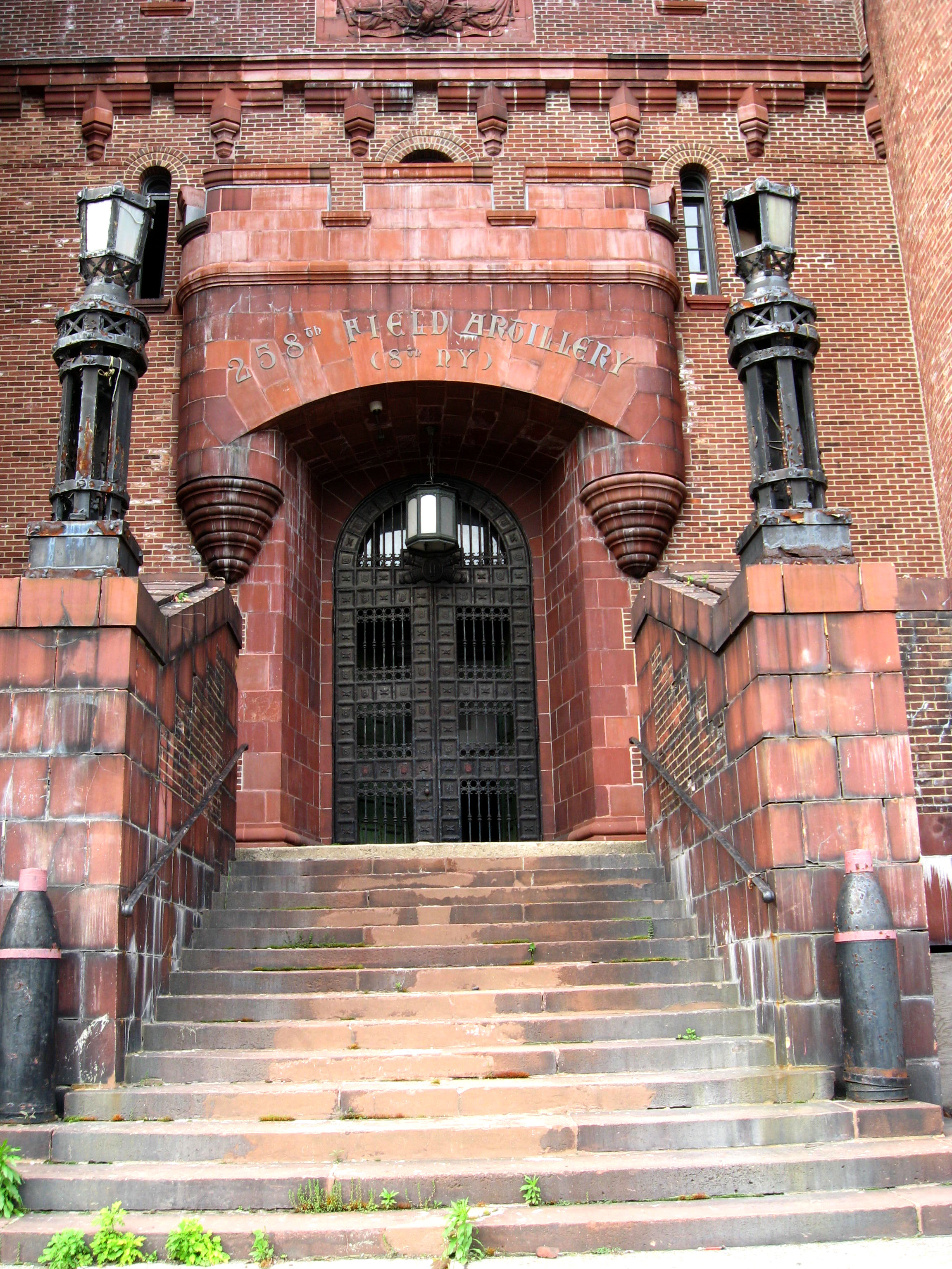 Looking north through fence at front door of Kingsbridge Armory. See also File:Kinsbrrdjeh.JPG.